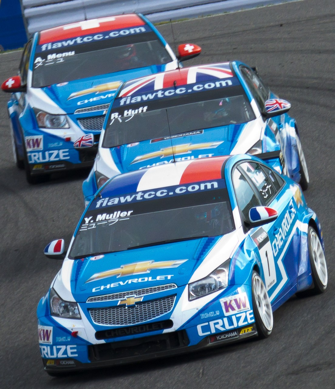 World Touring Car Championship 2011 Race of Japan - Race 2: Chevrolet trio (Yvan Muller, Robert Huff, and Alain Menu)